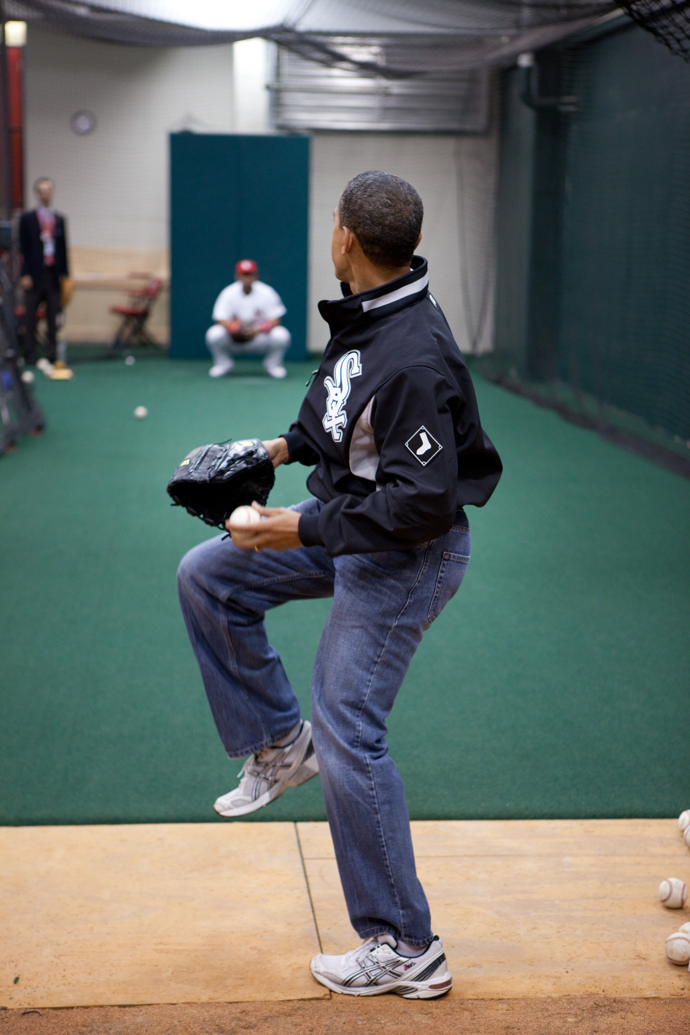 President Barack Obama warms up with St. Louis Cardinals first baseman Albert Pujols before the start of the MLB All-Star Game in St. Louis, July 14, 2009. President Obama later threw the first pitch to Pujols.